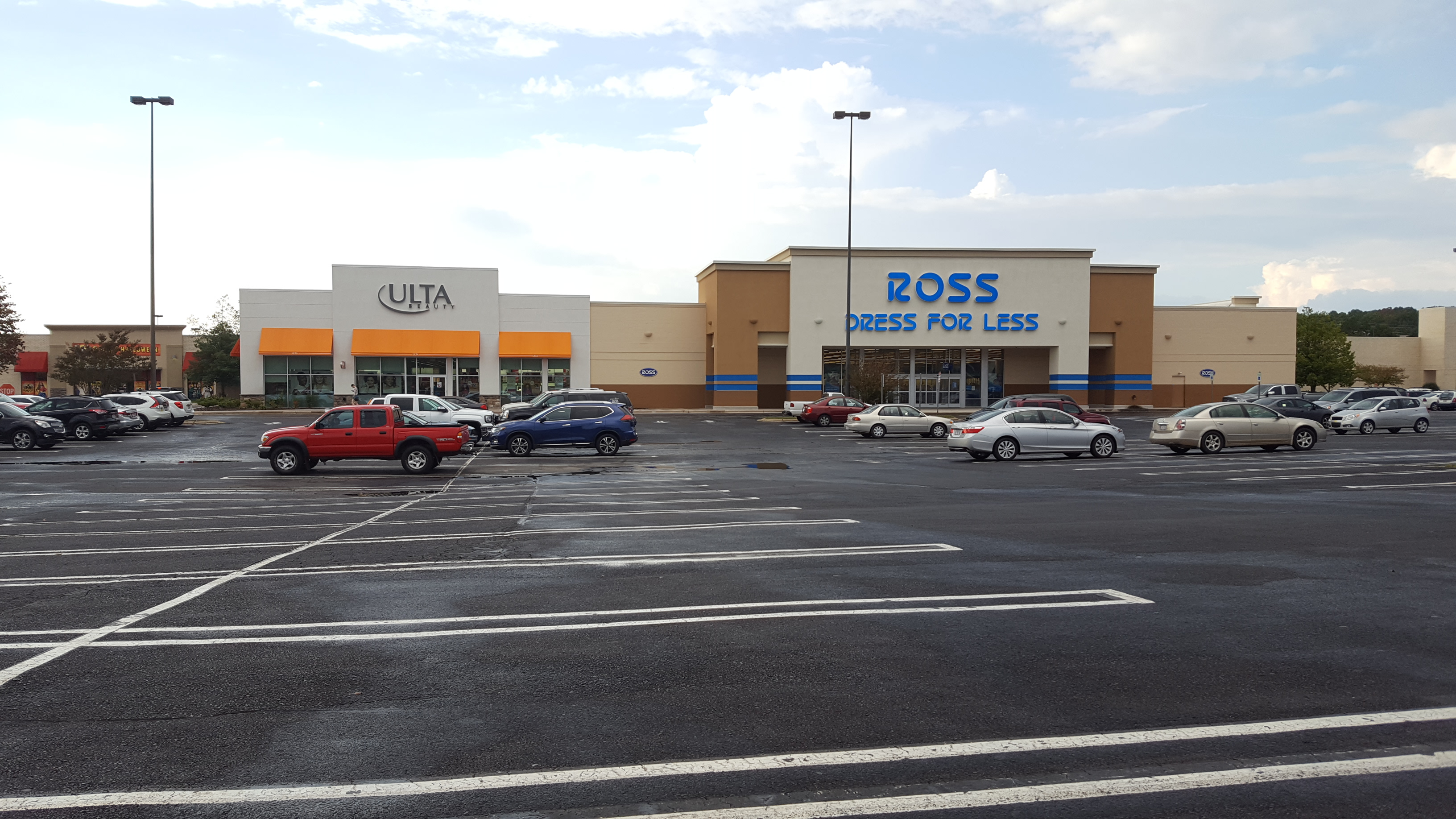 JCPenney - Randolph Mall Asheboro, NC October 2017